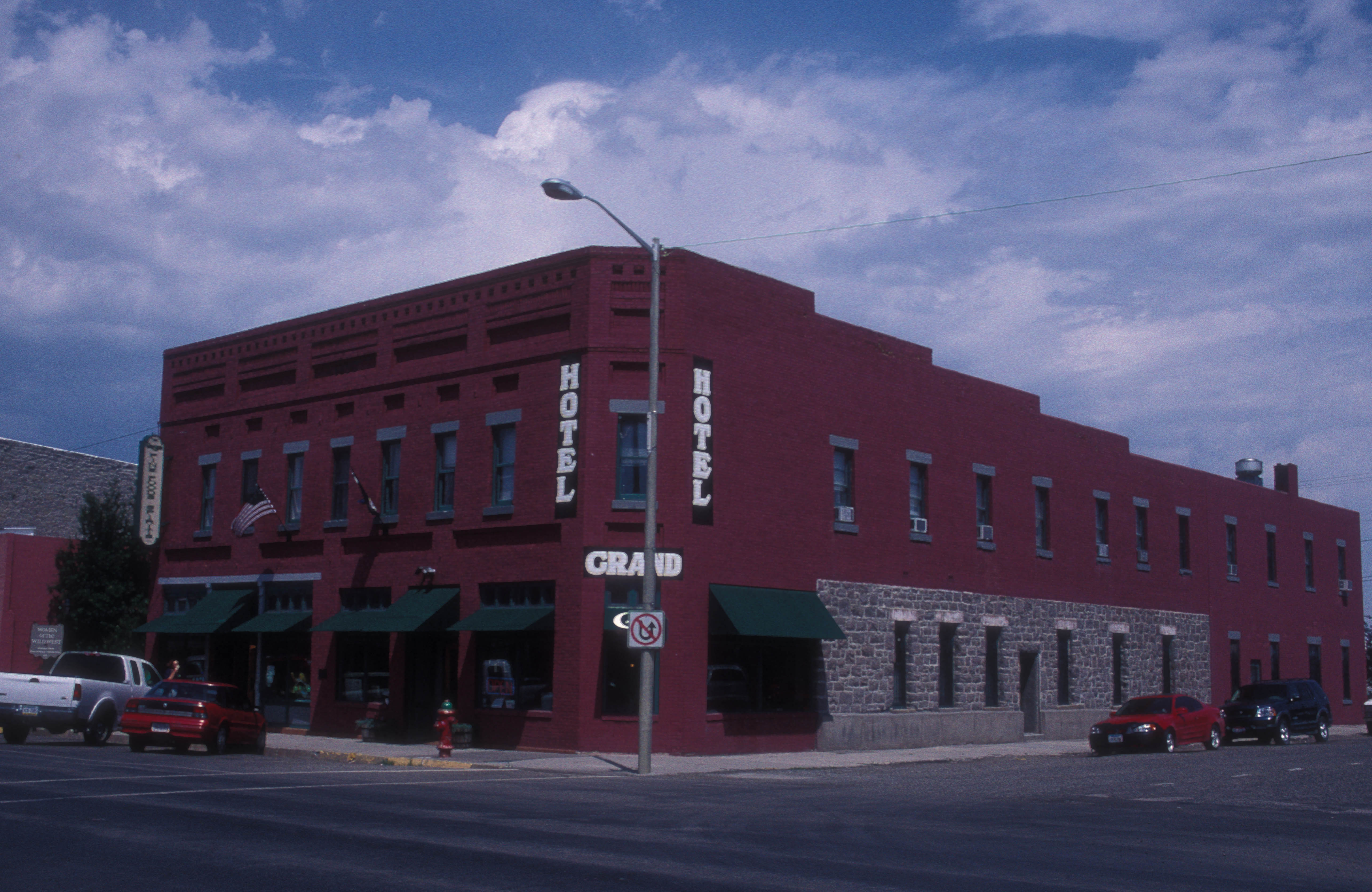 1890 VICTORIAN